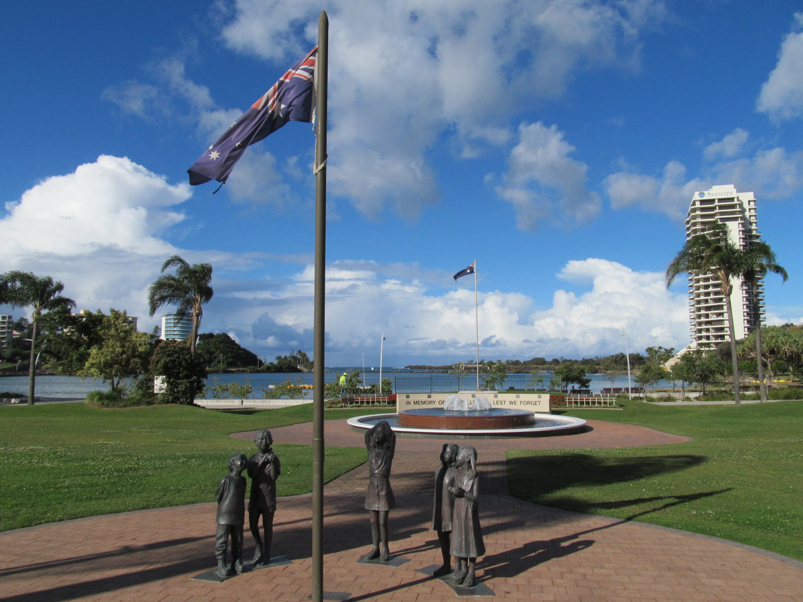 Tweed Heads War Memorial at Chris Cunningham Park, Tweed Heads, New South Wales